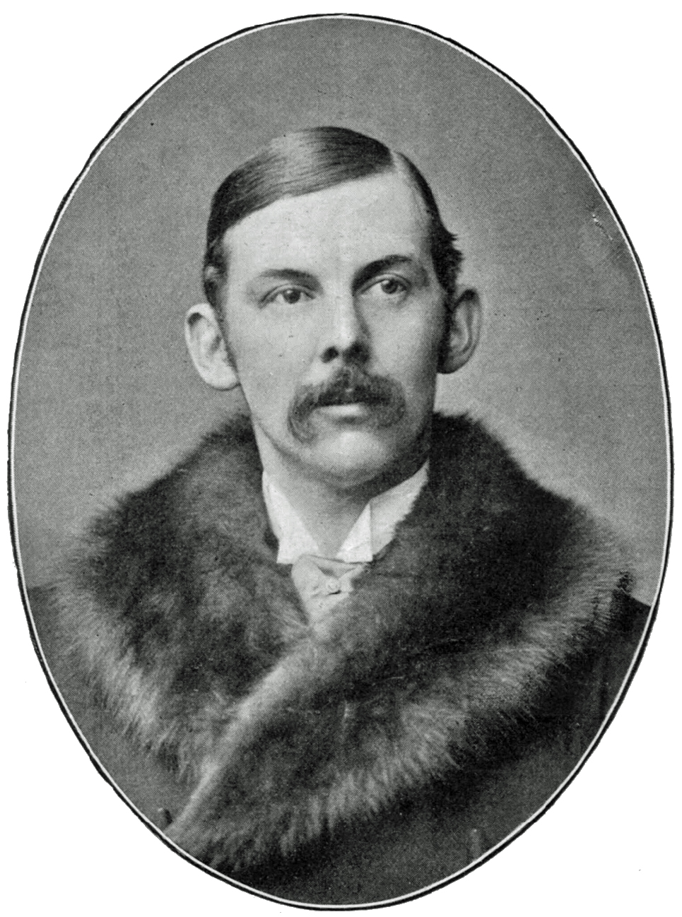 W H Fowler, Mayor of Taunton